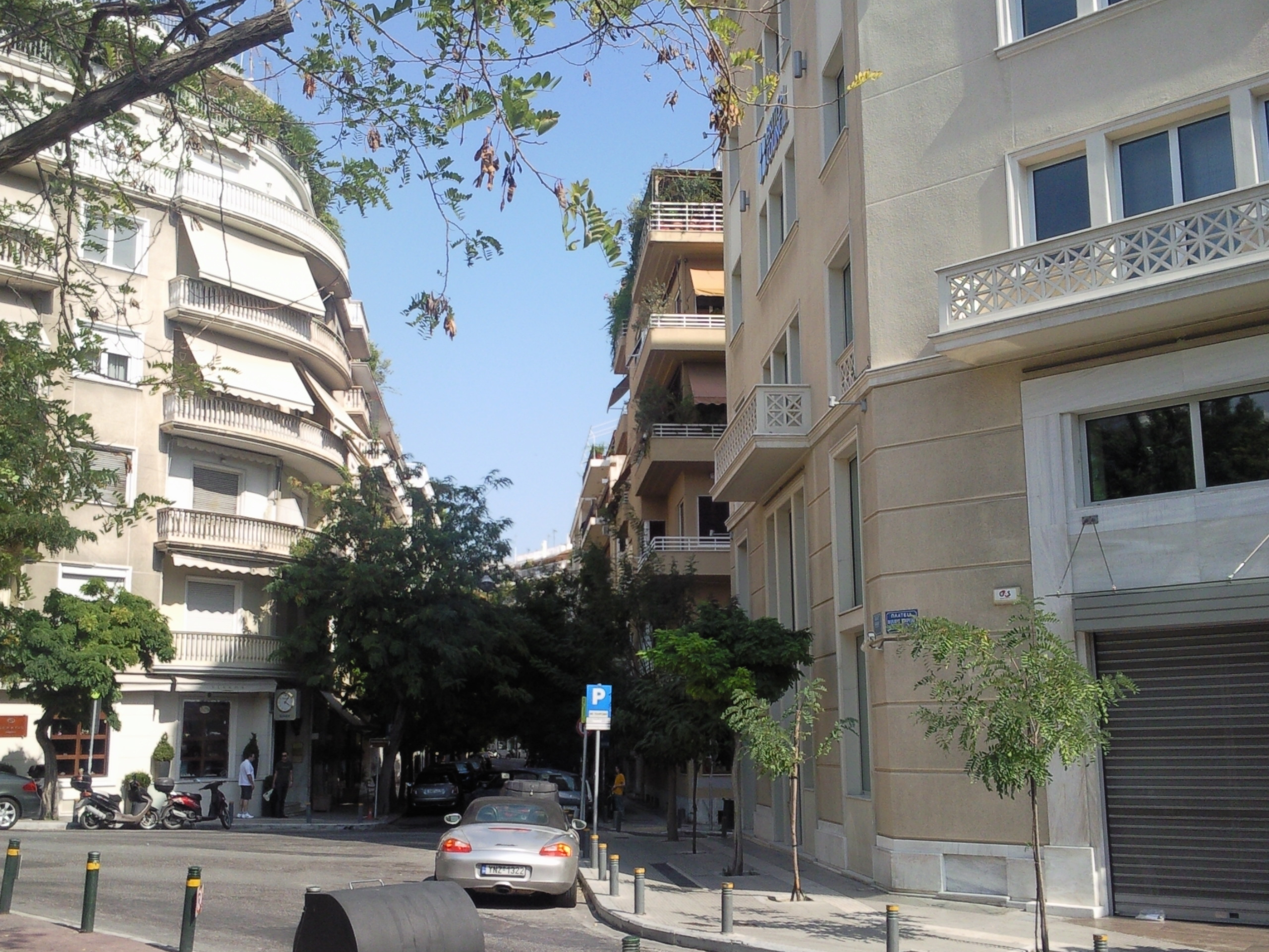 Kolonaki Square